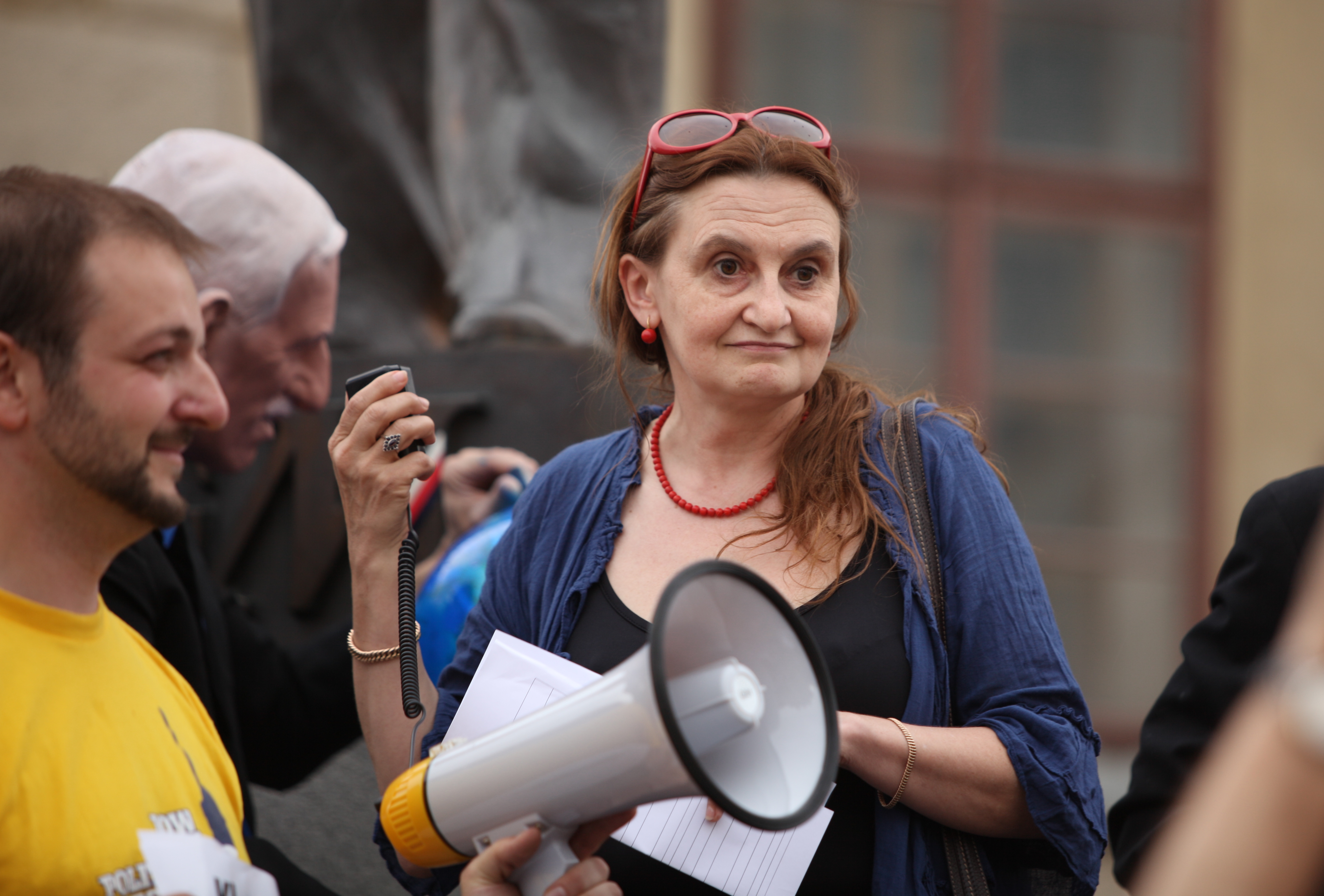 Acress Eva Holubová protesting againts president Václav Klaus